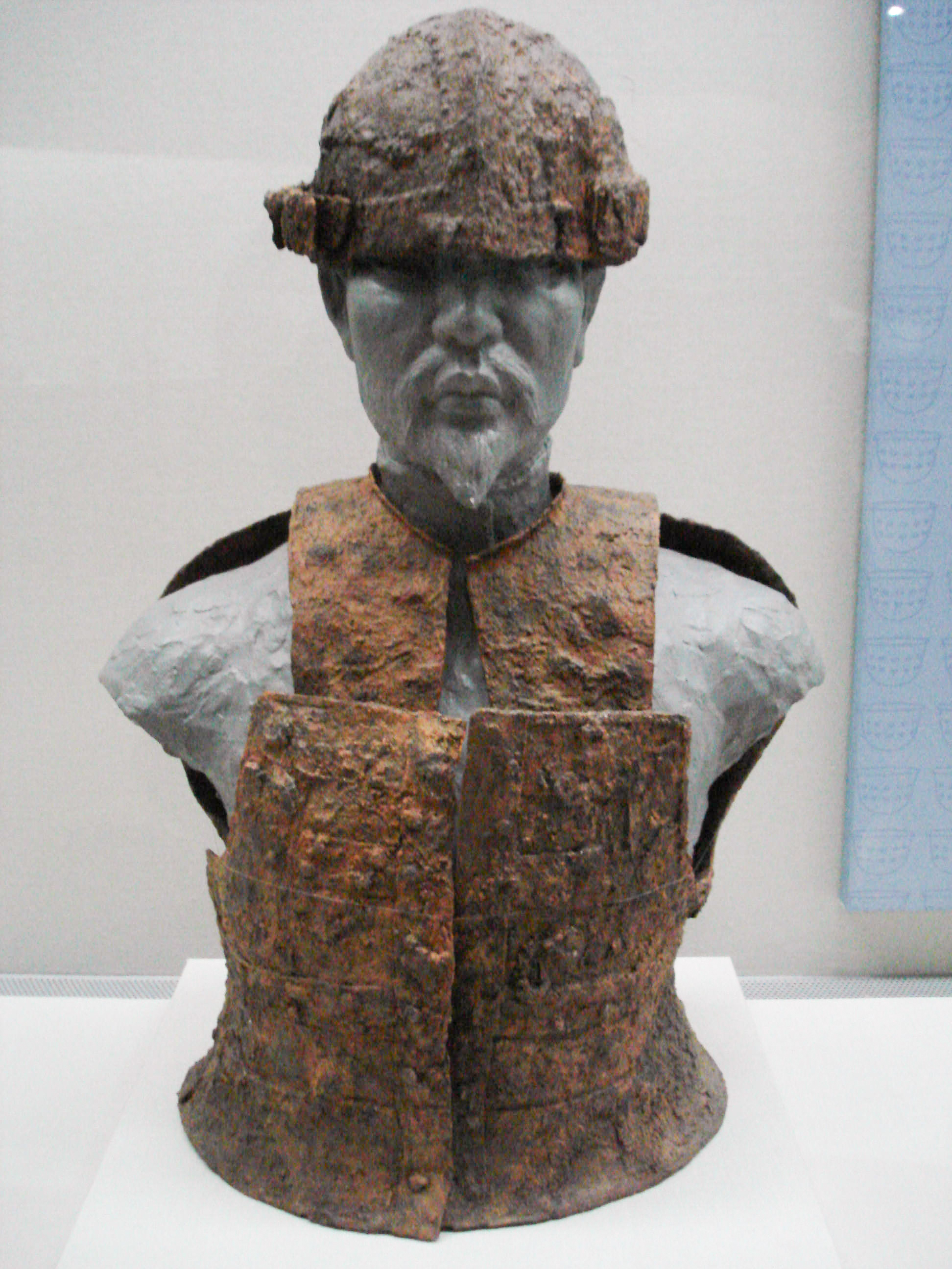 Replica of a 5th century Gaya armour and helmet excavated in Goryeong, South Korea. Exposed at the Gimhae National Museum, Gimhae, South Korea.